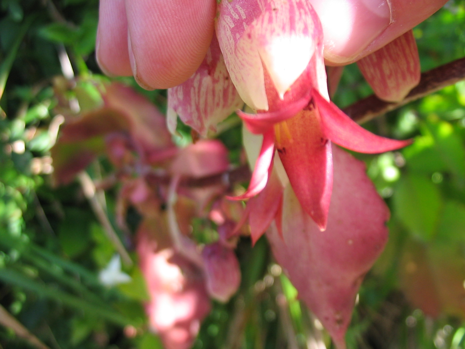 Goethepflanze (Kalanchoe pinnata) - Blüte